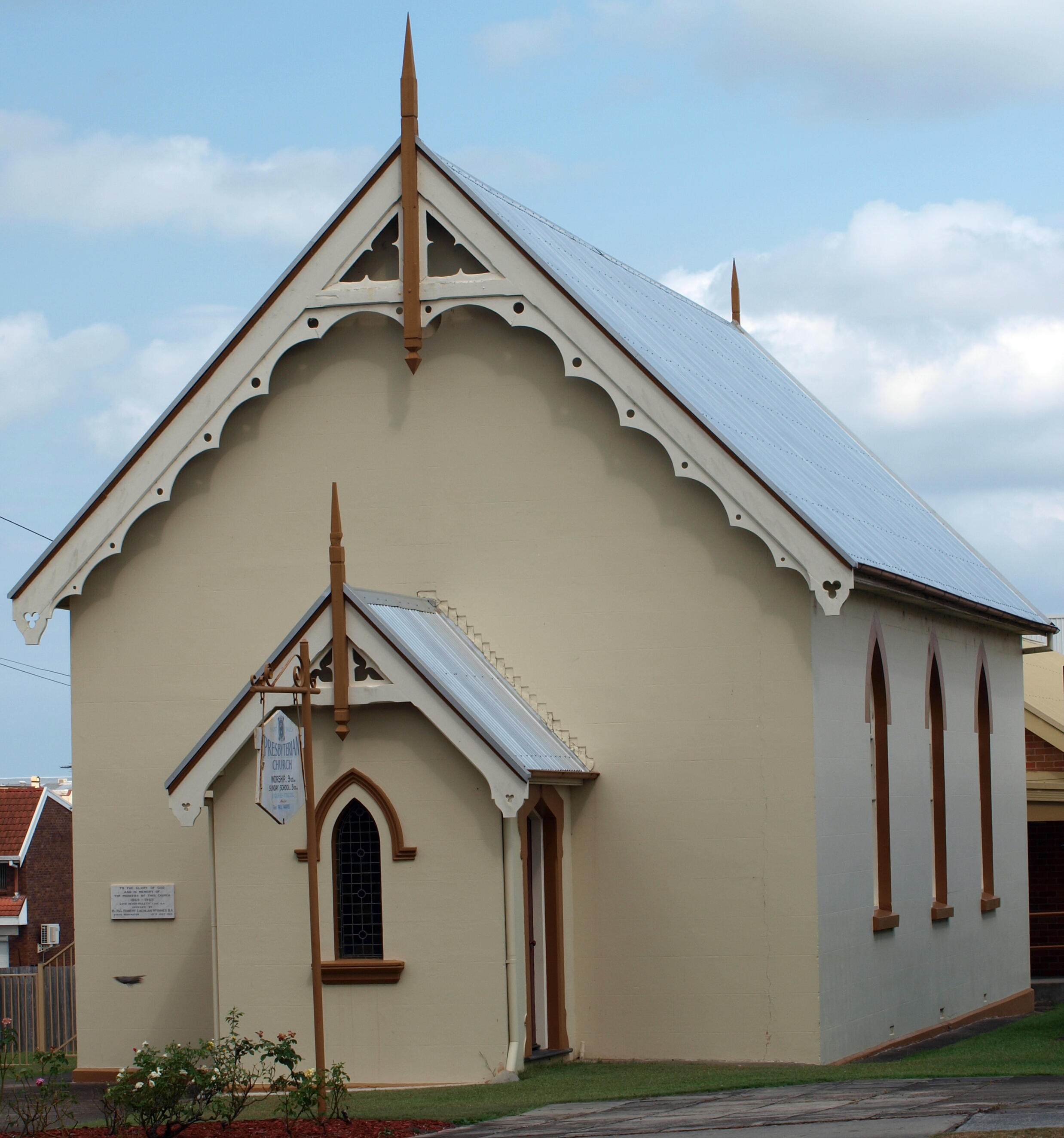 St Paul's church is the oldest building in Taree NSW Australia.